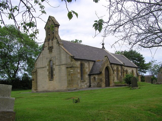 Parish church of St John the Baptist, Elton, County Durham, seen from the southwest